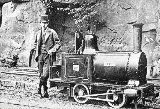 Engine No 1 (Effie) of Duffield Bank Railway, 1875